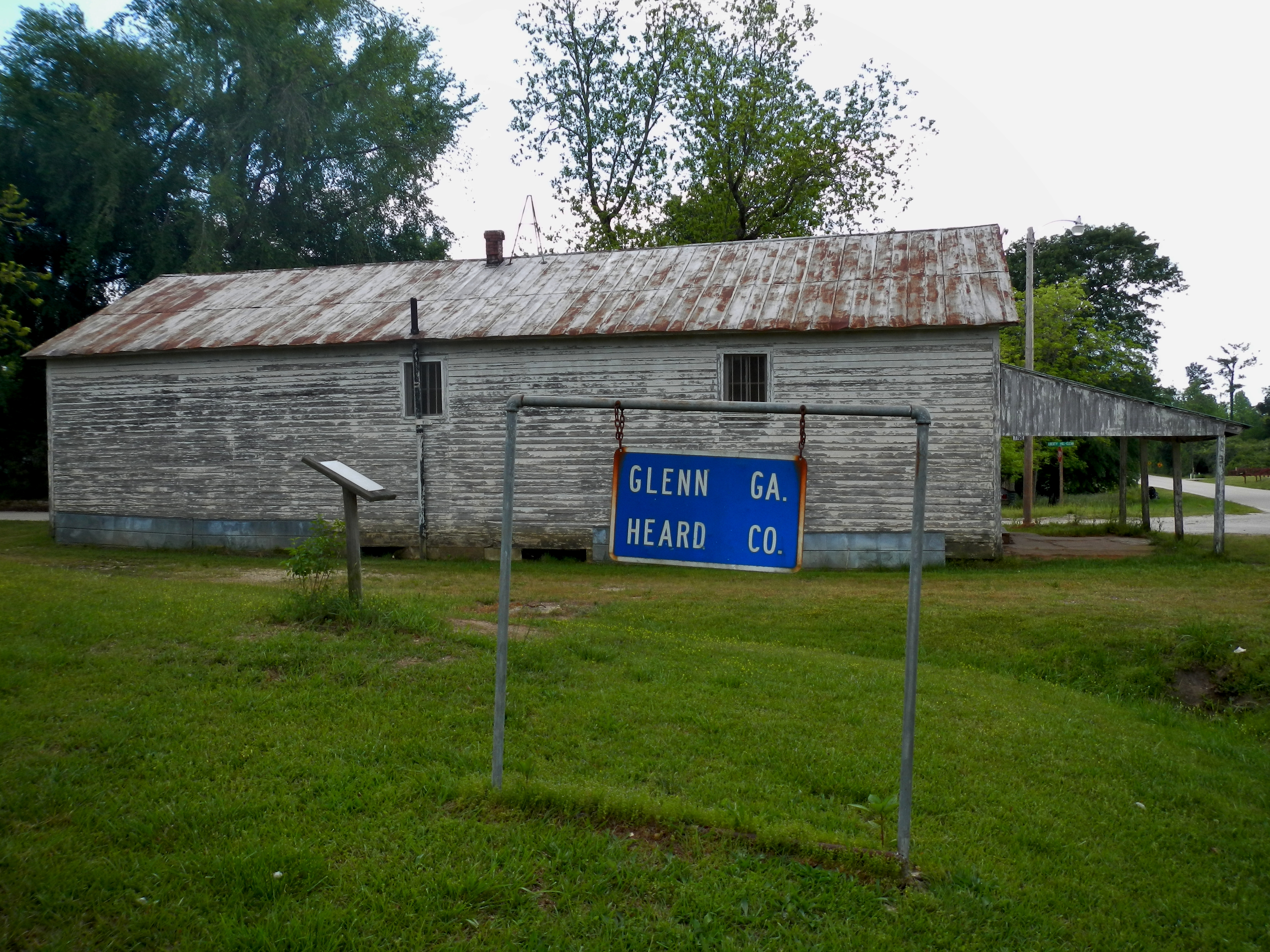 This is a photo of the old general store that stands at the crossroads of Glenn Rd. and Liberty Hill Rd. in Glenn, Georgia.